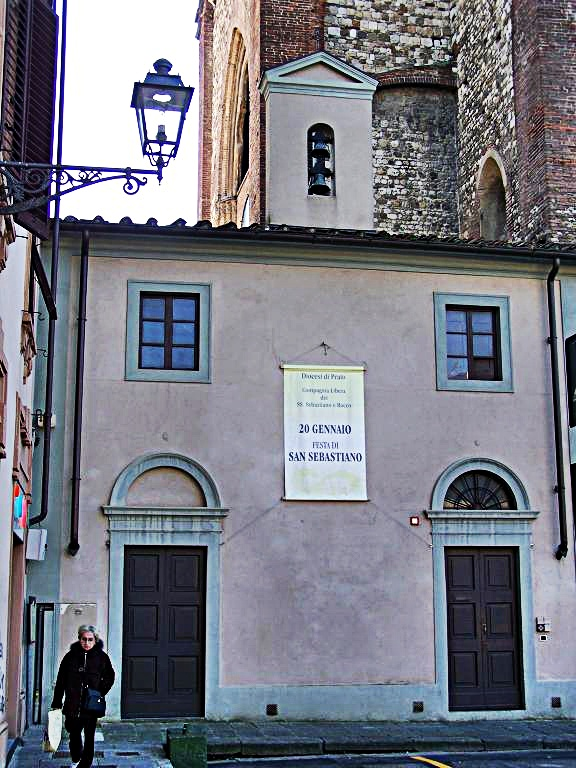 facade